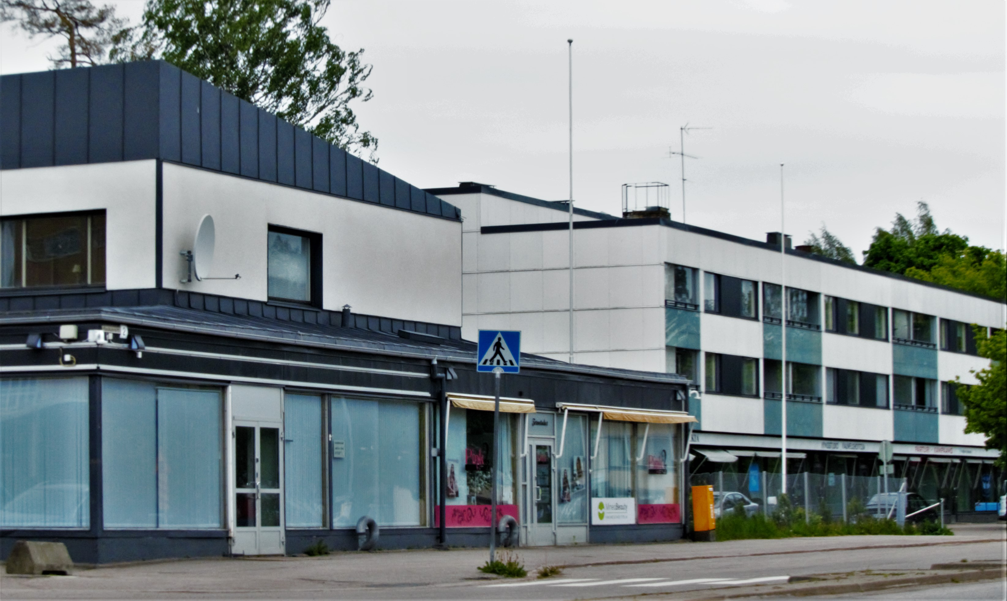 Street Keskusraitti in Rajamäki, Nurmijärvi